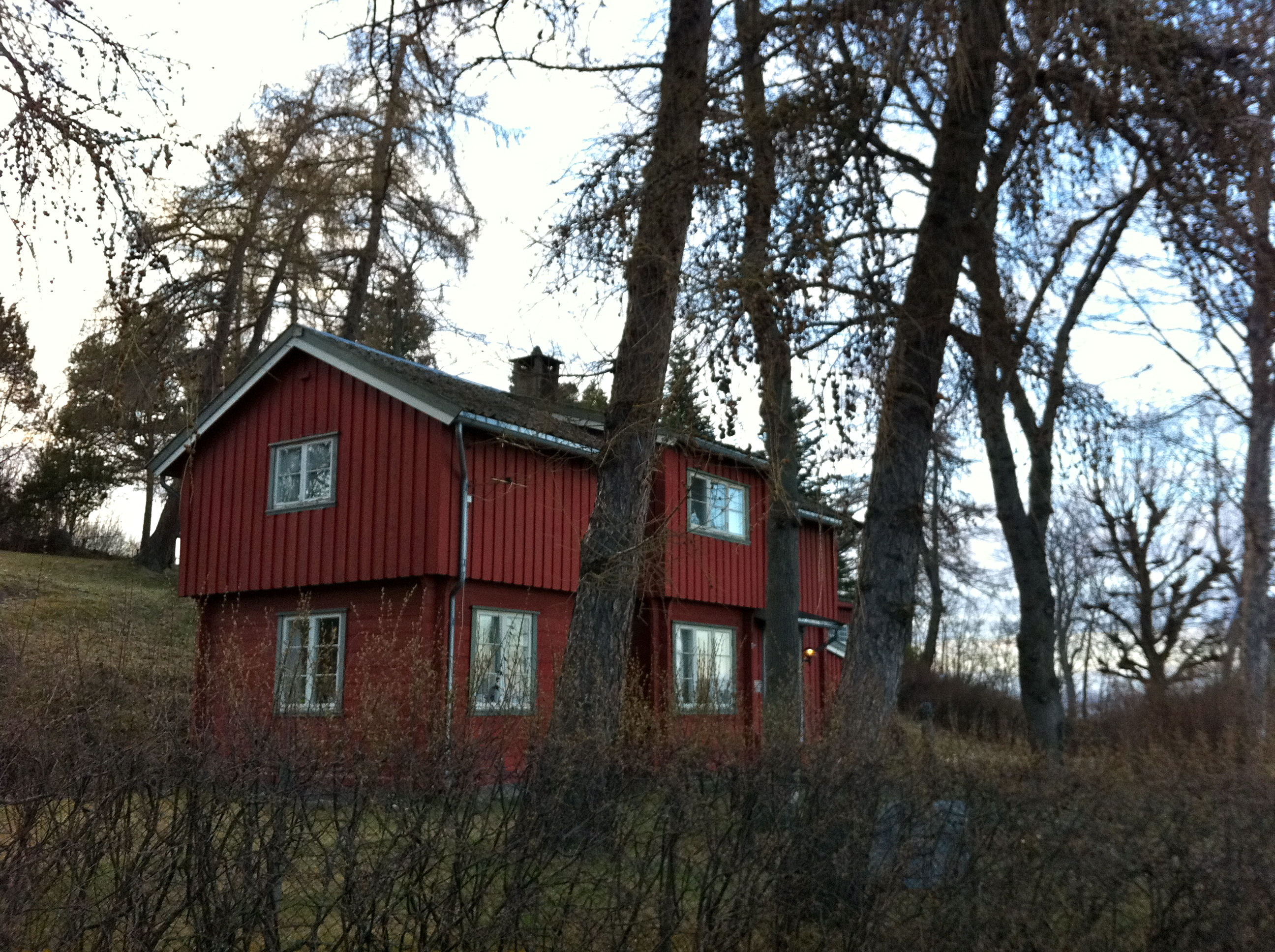 Adrianstua, former home of author Kristian Kristiansen. Now honorary residence, owned by the Trondheim municipality, Norway. The local author organisation has the house at its disposal. Authors may be bestowed the honour of living there for a period of five years.